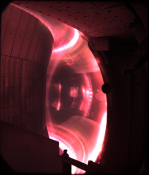 A fast CCD camera (visible wavelength) image of plasma in the EAST Tokamak. Fast camera images of EAST#56943, (c) t = 4.5 s, where (c) shows impurity behavior after t = 4.5 s.